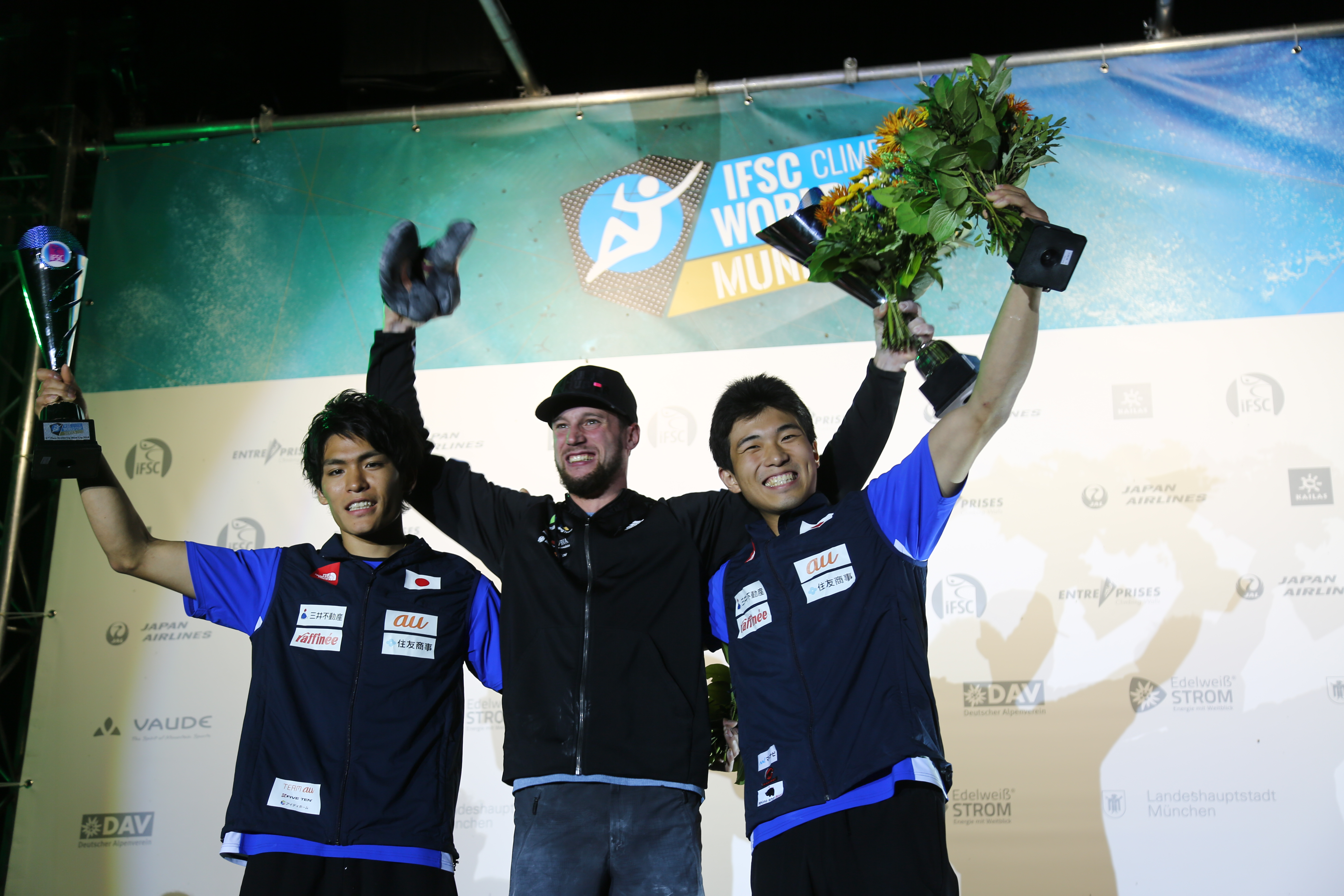 Boulder Worldcup 2018, Final Event in Munich 2018-08-18, Winners 1st place: KRUDER Jerney SLO, 2nd place: NARASAKI Tomoa JPN 3rd place: SUGIMOTO Rei JPN